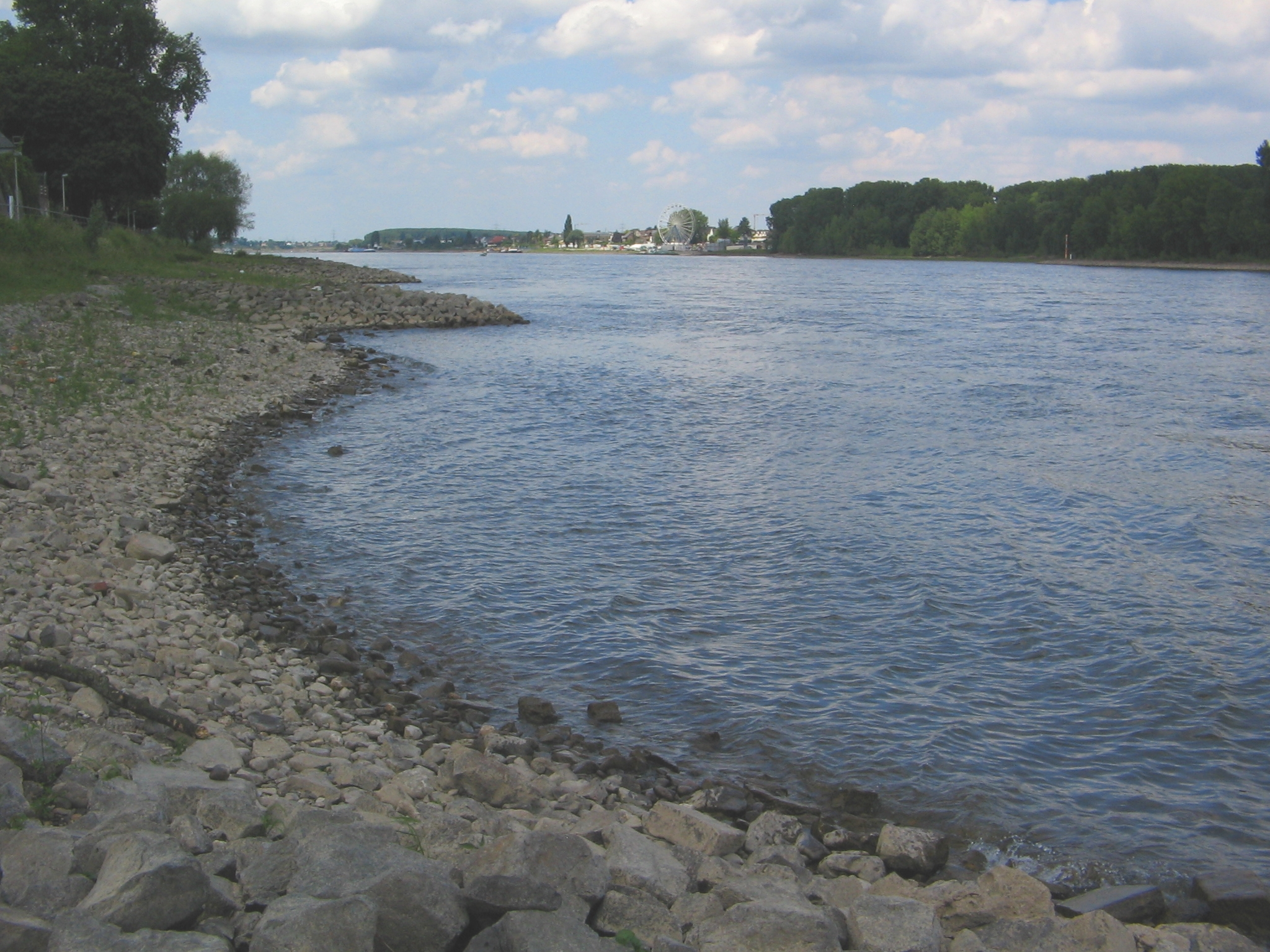 Rip Rap structures at river Rhine. Graurheindorf (Bonn), Germany